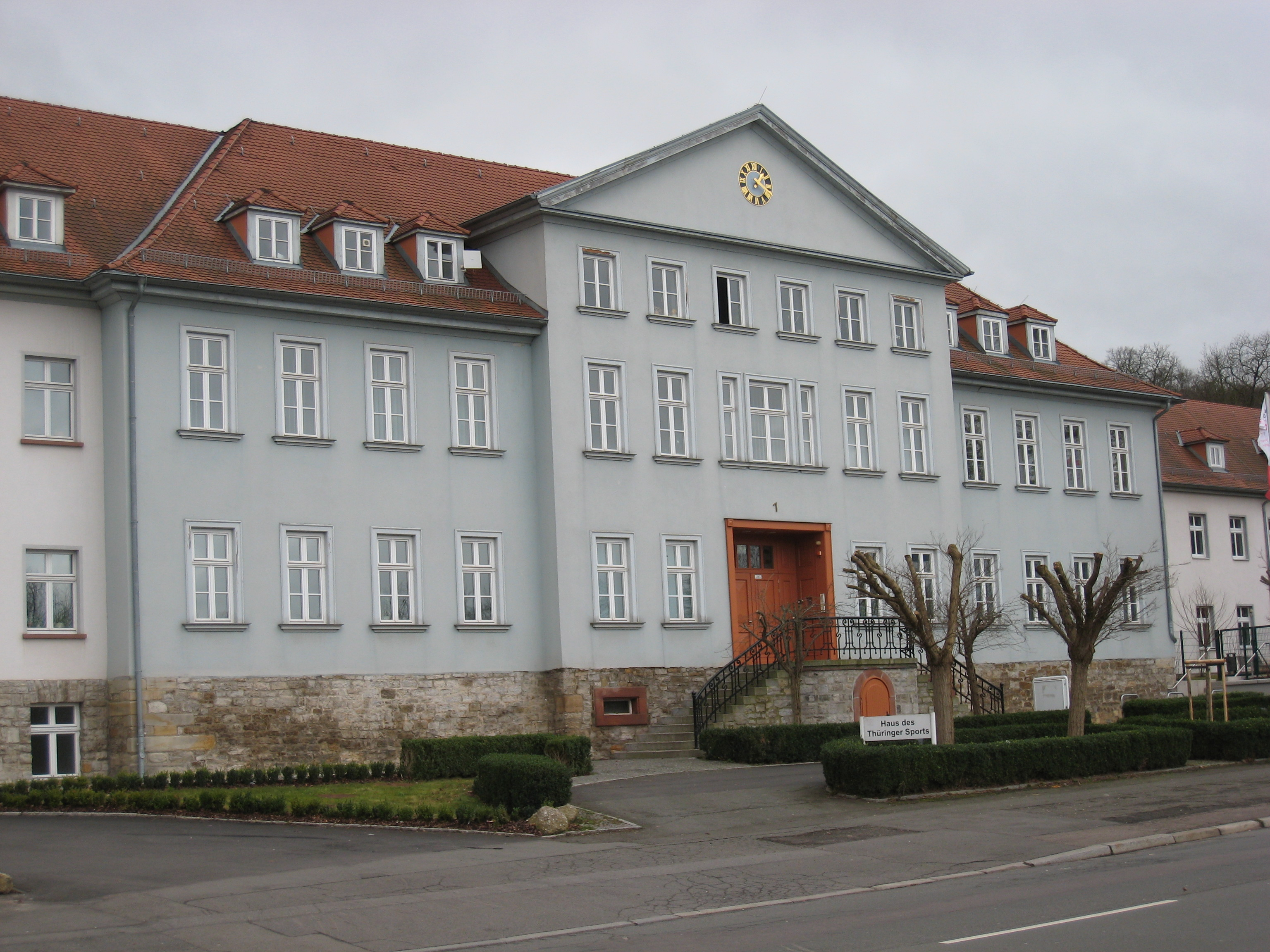 Haus des Thüringer Sports, Erfurt, Werner-Seelenbinder-Strasse 1